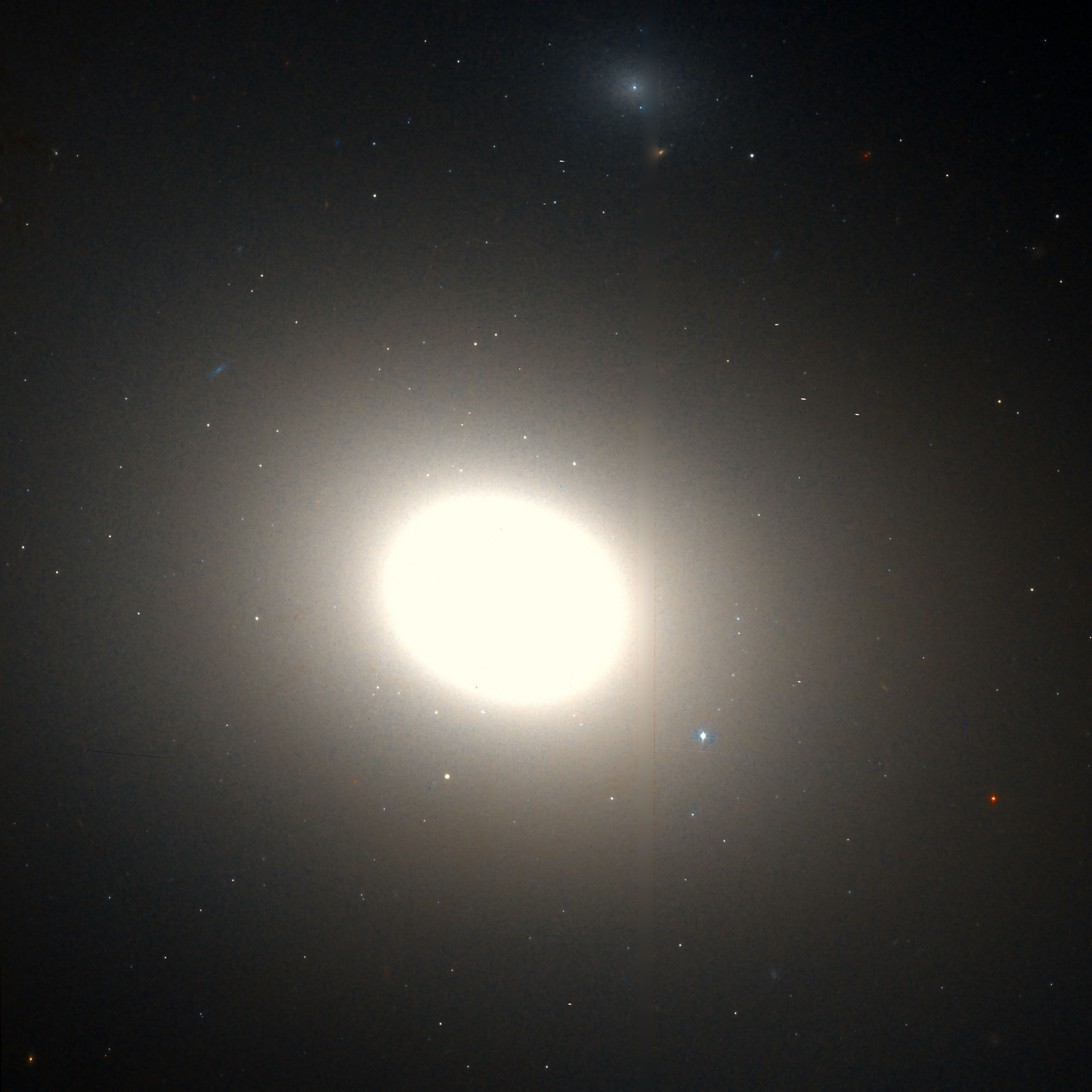 Messier object 86 by Hubble space telescope